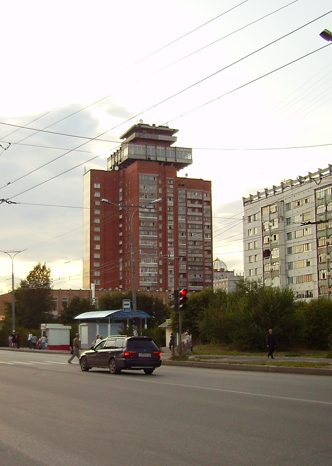 The highest house of Yoshkar-Ola